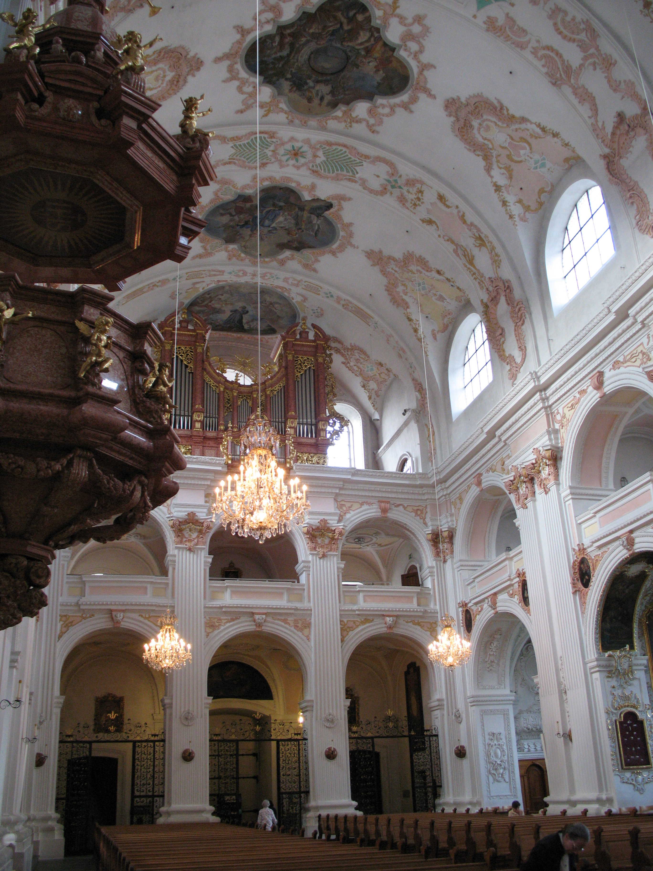 Jesuit Church, Luzern, Switzerland